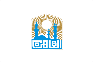 Flag of The Caire governadorate Imatge feta per J. Ollé